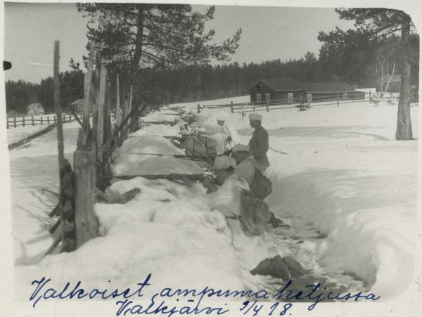 1918 Finnish Civil War. White troops in the Karelian Front, Valkjärvi 9 April 1918.